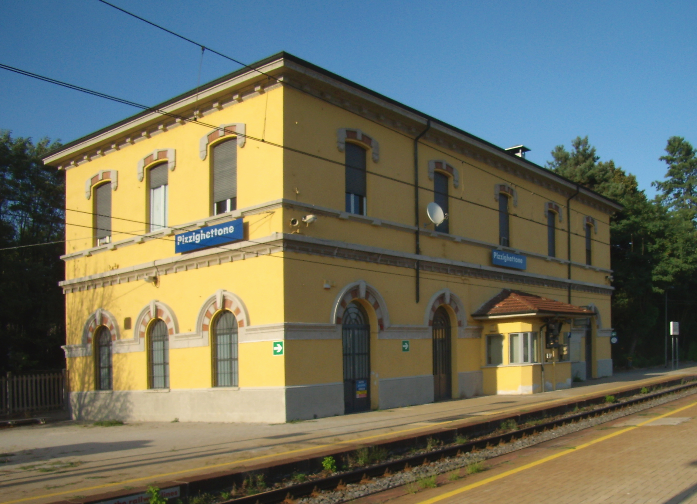 Railway station in Pizzighettone (CR), Italy